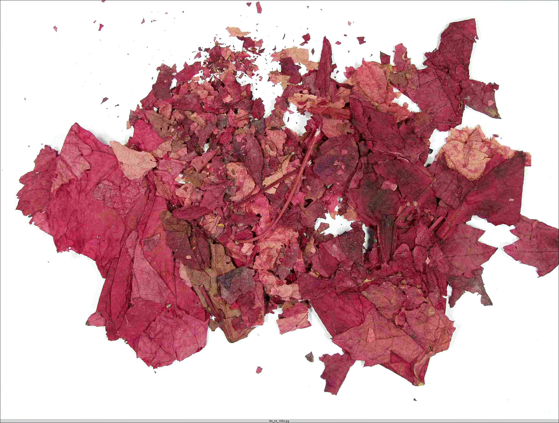 Red vine leaf, dried, suitable starting material for herbal medicinal products according to Pharmacopée francaise 10